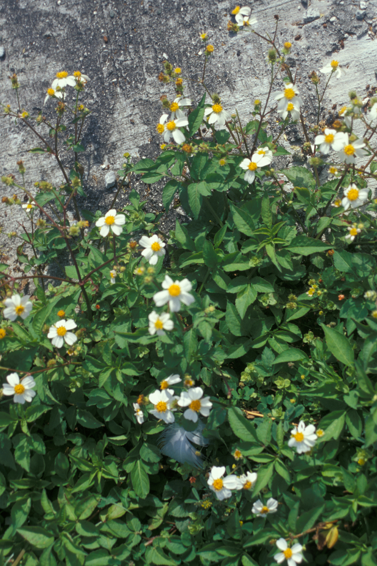 Bidens alba var. radiata (Habit). Location: Midway Atoll, Sand Island